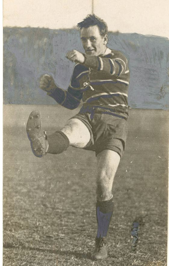 This is a photo of Wally Messenger in his prime. He played for Eastern suburbs in Sydney - now known as the Sydney Roosters. He represented New South Wales and Australia (1913-14).